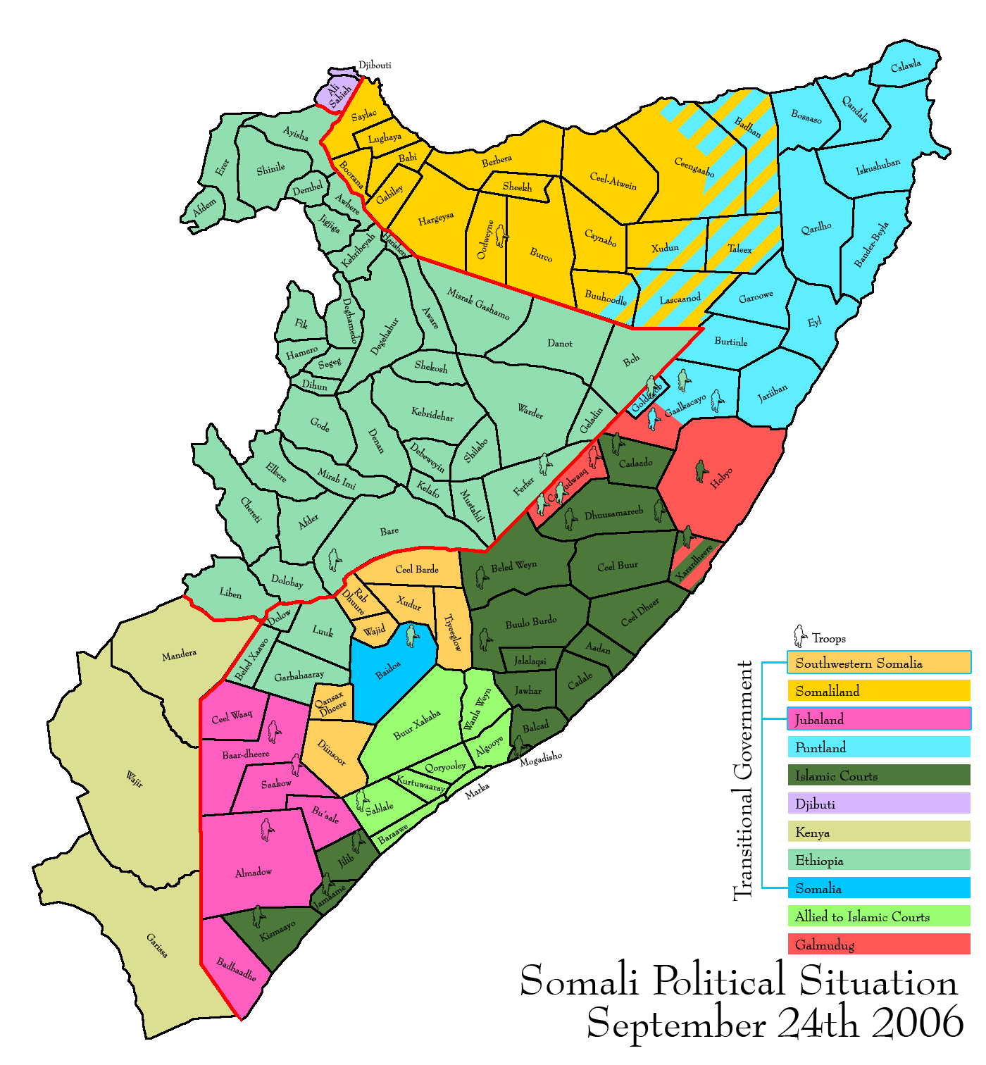 Somali political situation as of September 24, 2006.